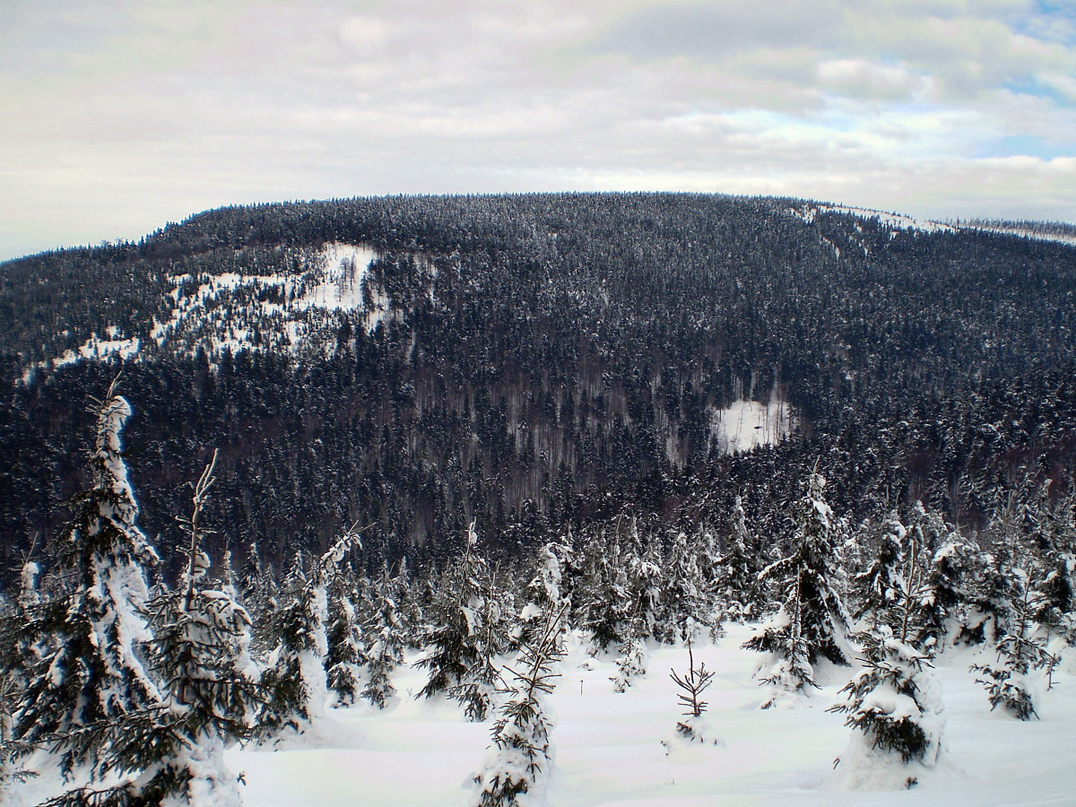 Koruna (1099 m) in Eagle Mountains